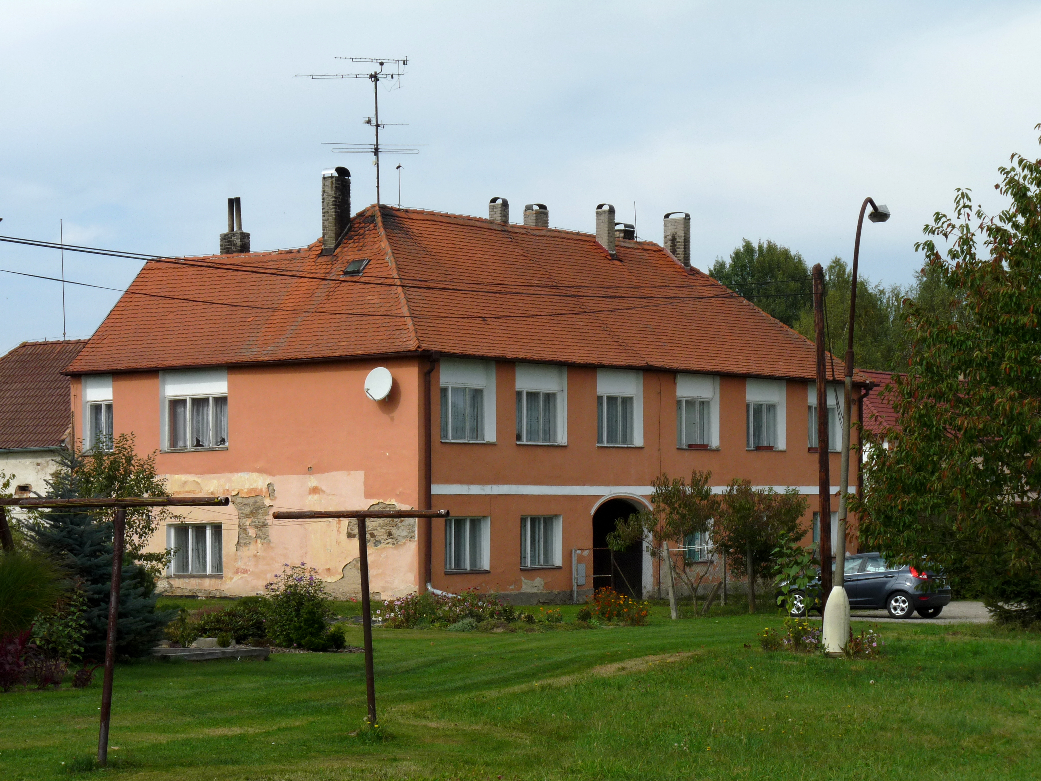 House No 8 in the village of Hubenov, Český Krumlov District, South Bohemian Region, Czech Republic.